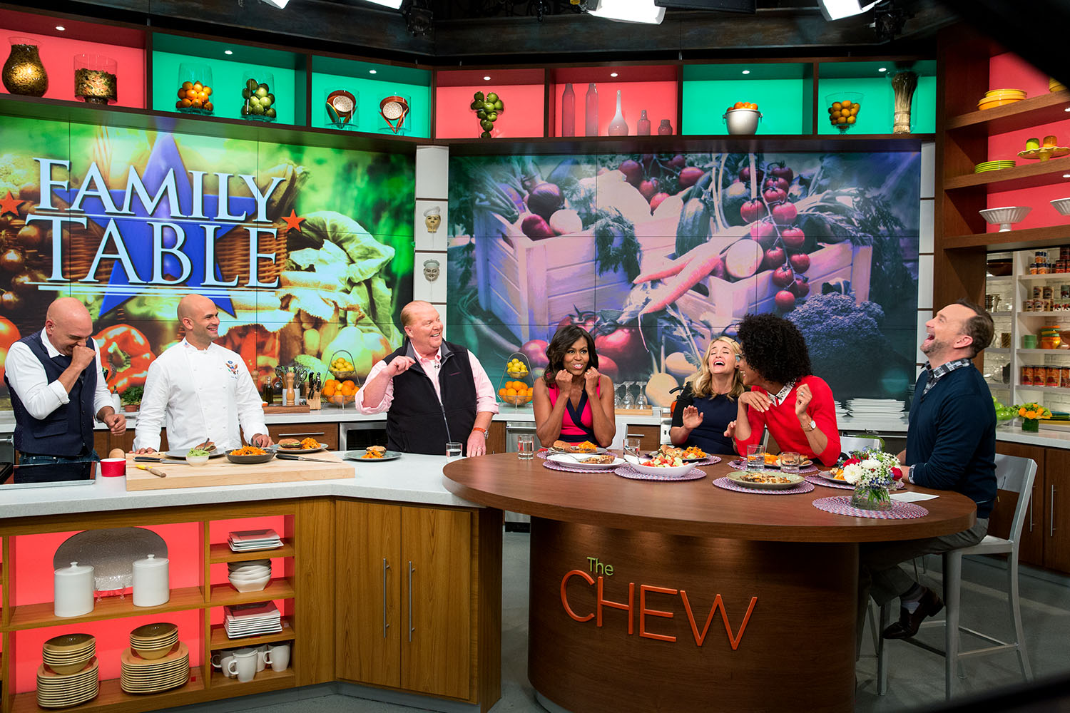 First Lady Michelle Obama tapes a segment of The Chew in New York, N.Y., Sept. 23, 2014. Participants with the First Lady from left are: Michael Symon, "Let's Move!" Executive Director Sam Kass, Mario Batali, Daphne Oz, Carla Hall and Clinton Kelly. (Official White House Photo by Chuck Kennedy)